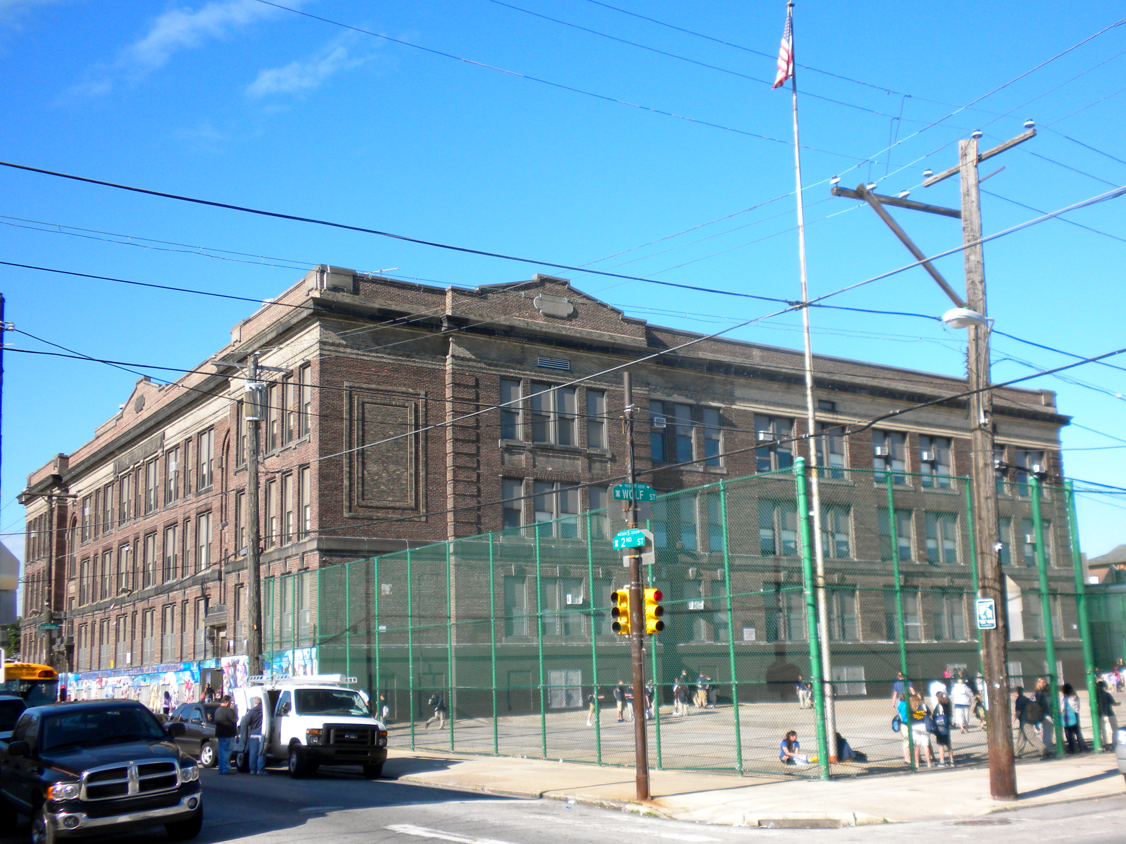 George Sharswood School on the NRHP since November 18, 1988. At 2300 South 2nd Street in Whitman neighborhood of south Philadelphia, PA